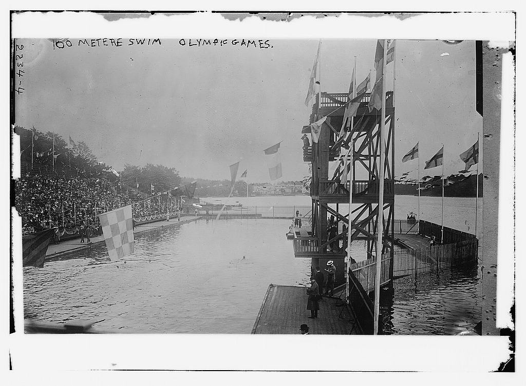 Bain News Service,, publisher. 100 Meter Swim--Olympic games [1912] (date created or published later by Bain) 1 negative : glass ; 5 x 7 in. or smaller. Notes: Title from unverified data provided by the Bain News Service on the negatives or caption cards. Photo related to the 5th Olympic Games, held in Stockholm, Sweden, in 1912. (Source: Flickr Commons project, 2008) Forms part of: George Grantham Bain Collection (Library of Congress). Subjects: Swimming Format: Glass negatives. Repository: Library of Congress, Prints and Photographs Division, Washington, D.C. 20540 USA, General information about the Bain Collection is available at Higher resolution image is available (Persistent URL): Call Number: LC-B2- 2234-4a